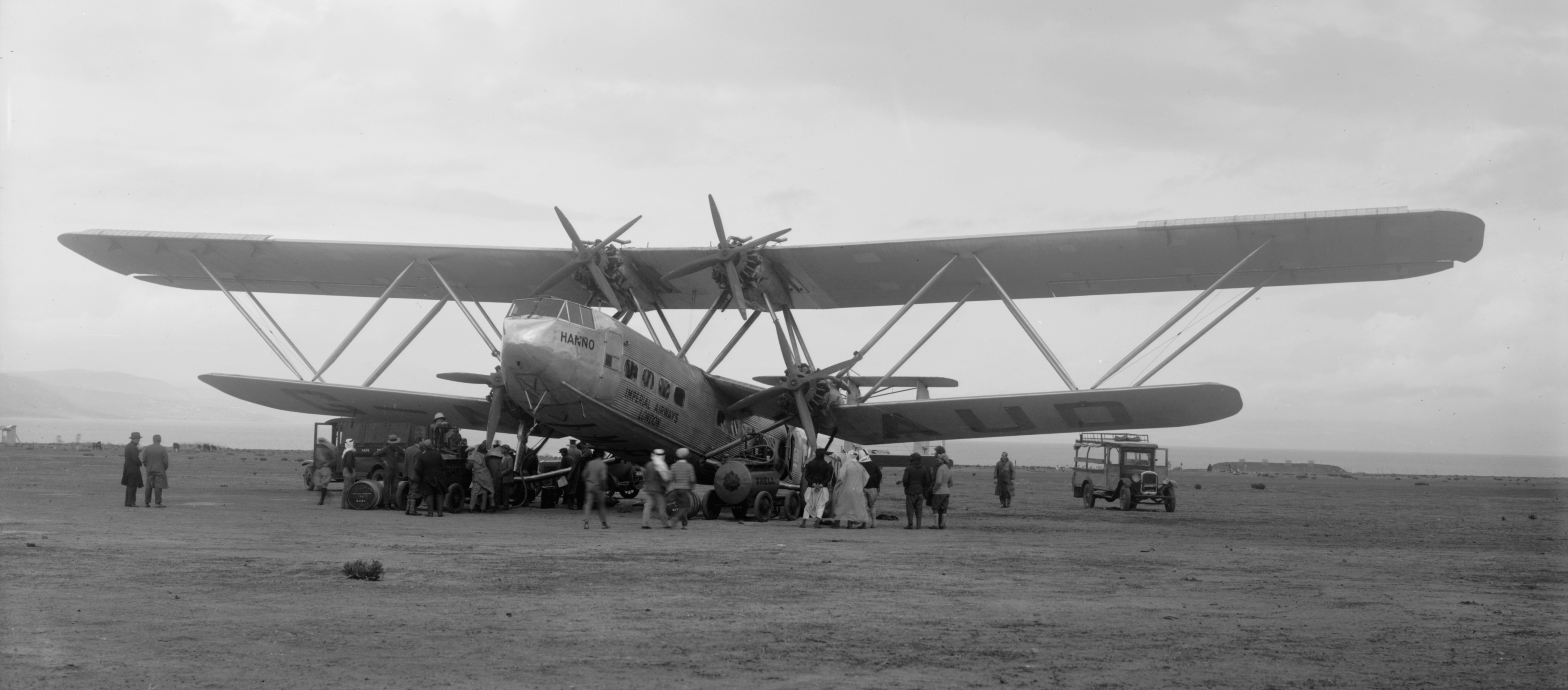 Handley Page H.P.42, british four-engined long-range biplane airliner of the Imperial Airways, at Samakh , October 1931.Original description: "Air views of Palestine. Aircrafts etc. of the Imperial Airways Ltd., on the Sea of Galilee and at Semakh. Aircraft "Hanno" at Semakh. Awaiting departure."